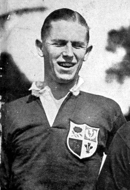 Rugby union player Carl Douglas Aarvold during his days with the British and Irish Lions.